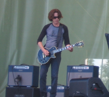 Dominic Miller and Sting at PoriJazz 2006